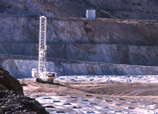 Open-pit Robinson copper mine near Ely, Nevada, USA.